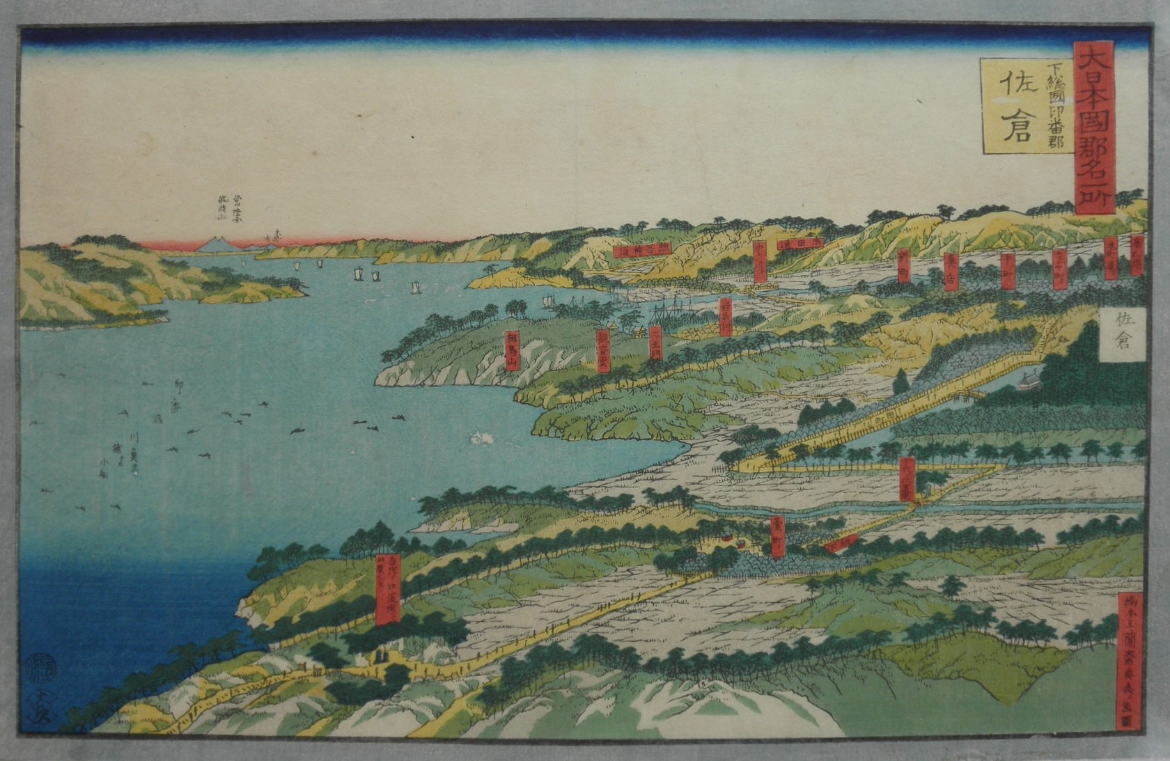 Landscape print by Utagawa Sadahide, here signing ’Hashimoto Gyokuransai Sadahide ga zu’ [橋本玉蘭斎貞秀画図]; series titel 大日本国郡名所 - Dai Nihon Kokugun Meisho – Images of Japan: Famous places in Japan